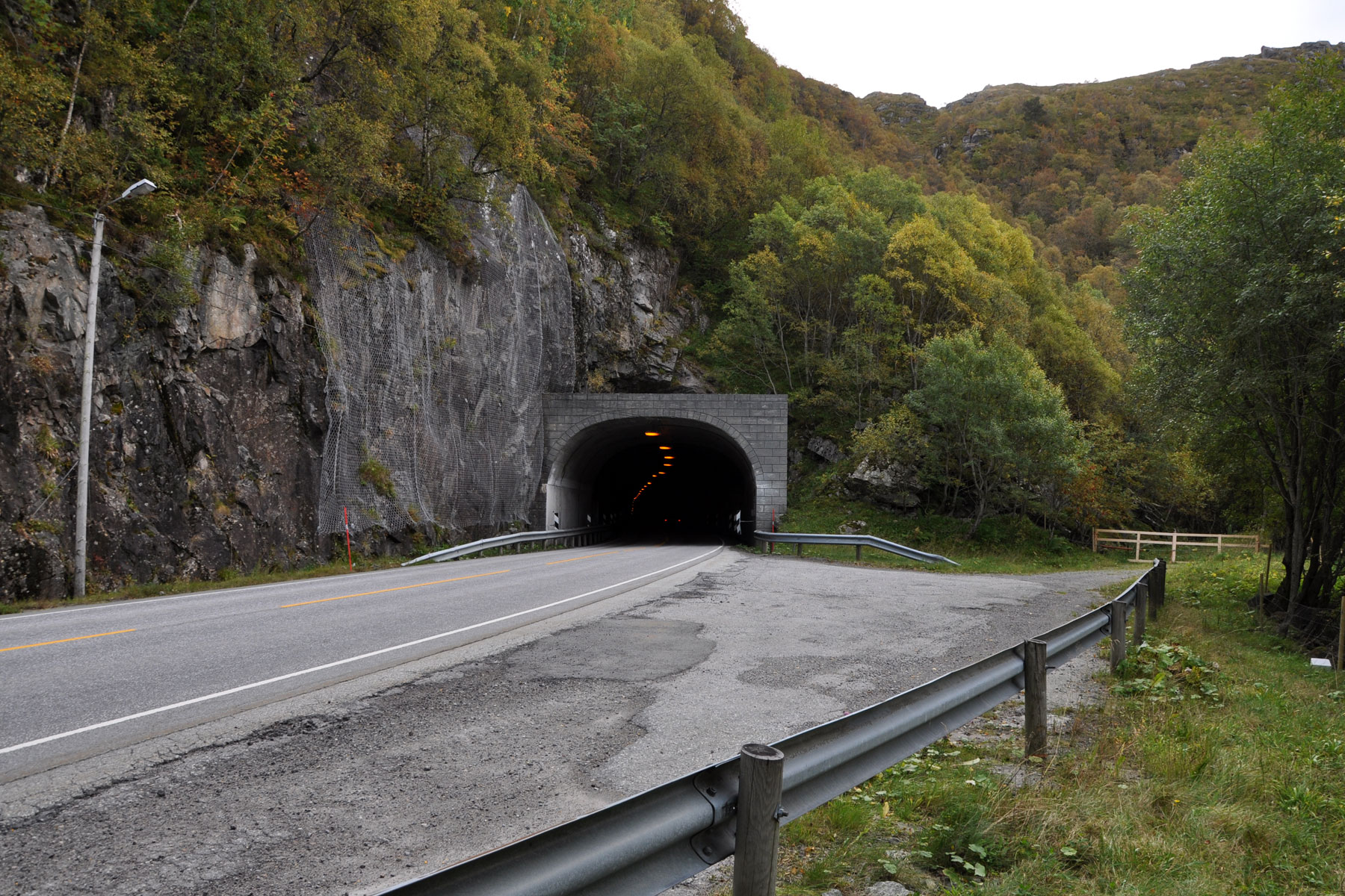 The northern entrace for the oldest and sothern Remmefjell tunnel.